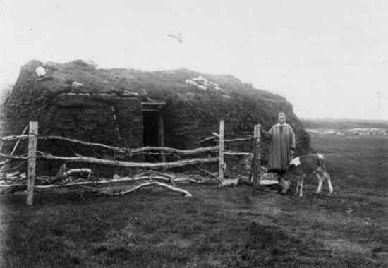 sami woman and a calf outside a house